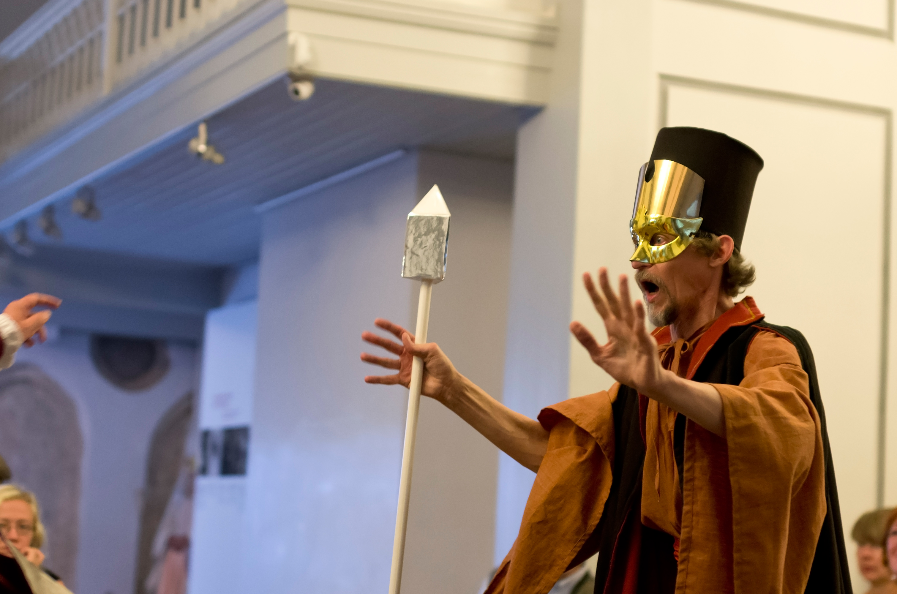 Moments from the performance "Orlando furioso" of the early dance ensemble Saltatriculi, August 16th 2015.